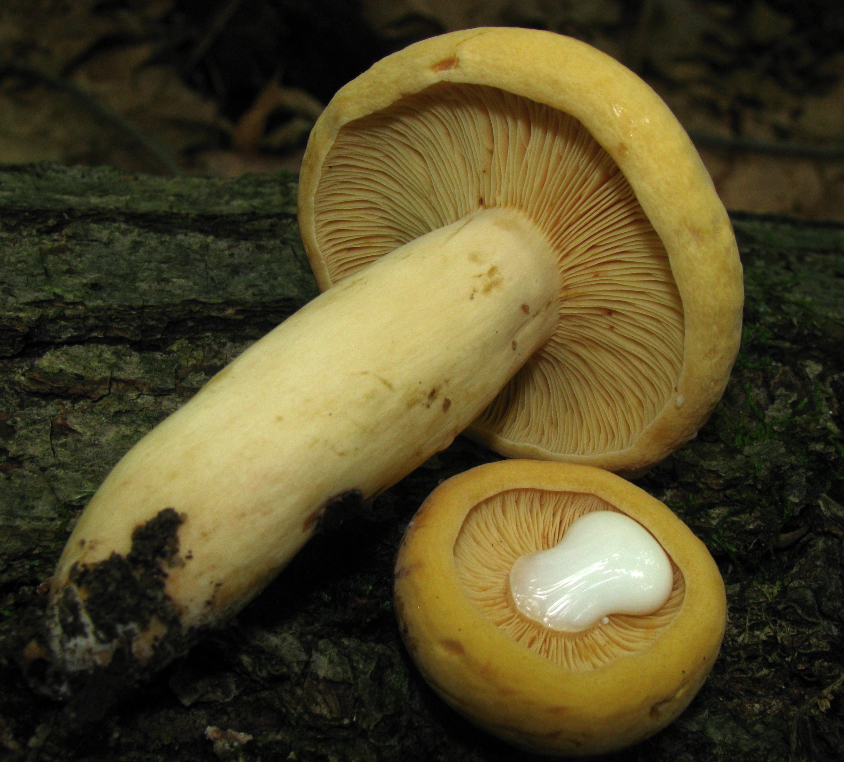 Fruit bodies of the the fungus Lactarius volemus var. flavidus. Specimens photographed in Strouds Run State Park, Athens, Ohio, USA.